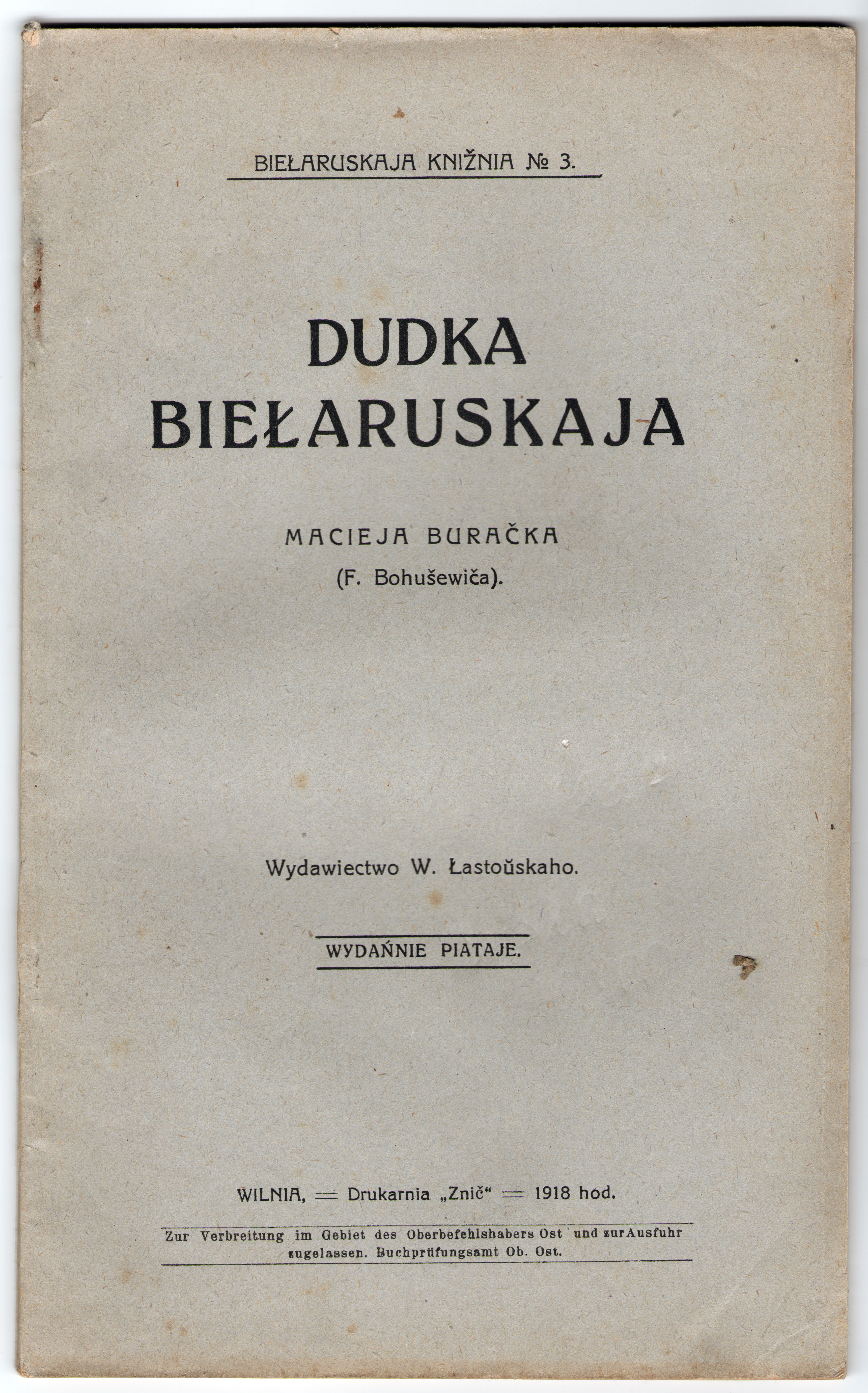 Francišak Bahuševič. "Дудка беларуская" Беларуская (тарашкевіца): Вокладка кнігі «Дудка беларуская» Францішка Багушэвіча. 1918 год, 5 выдаьне